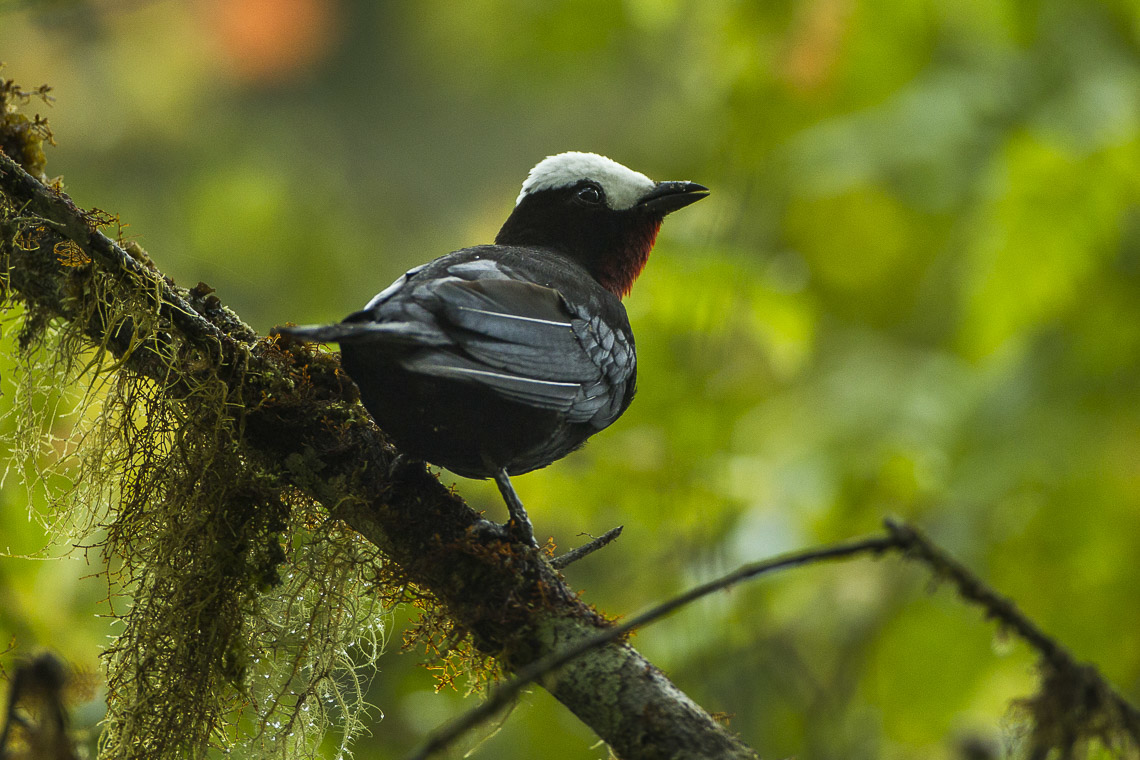 White-capped Tanager - Colombia_S4E3845